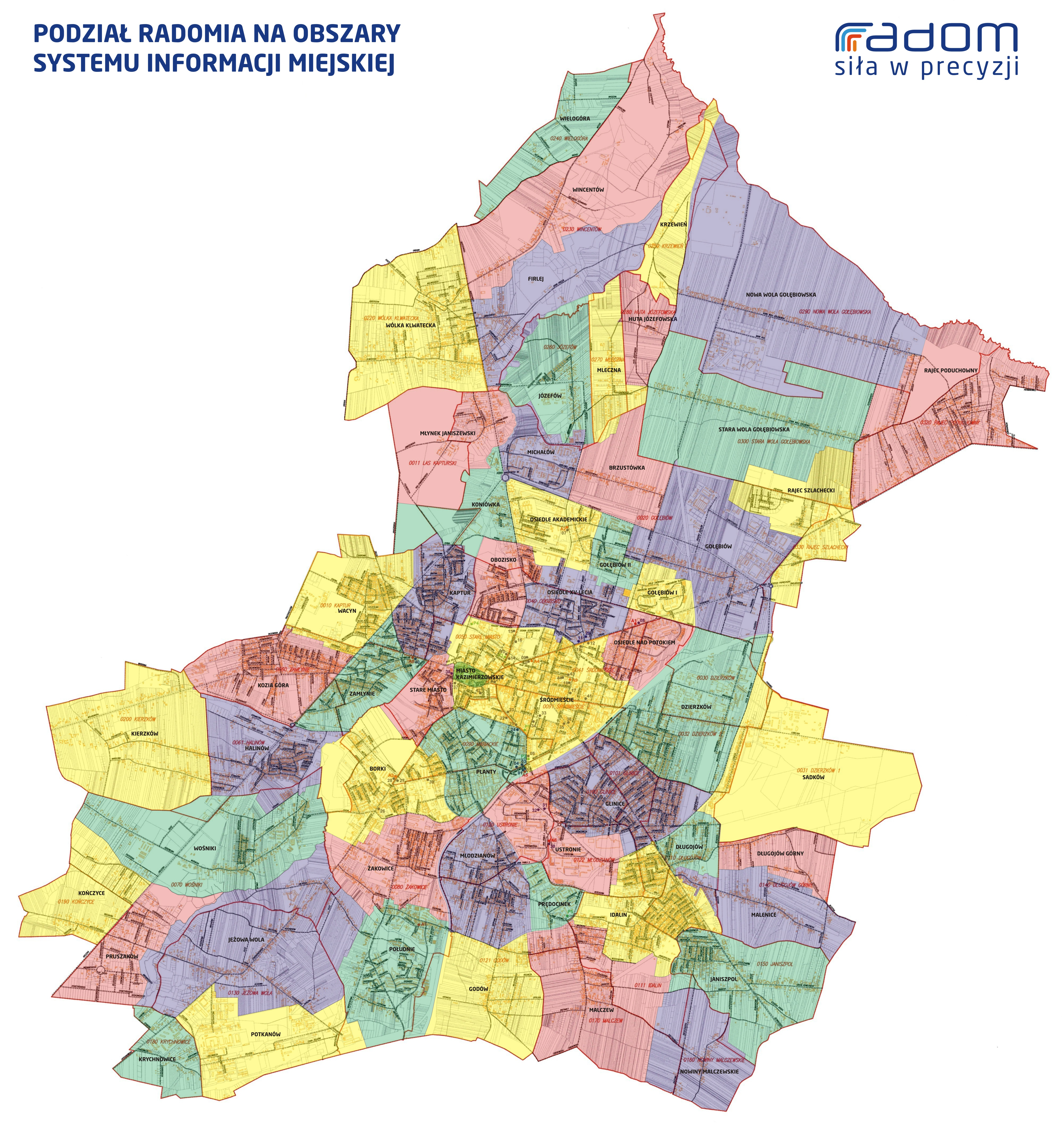 Districts in Radom